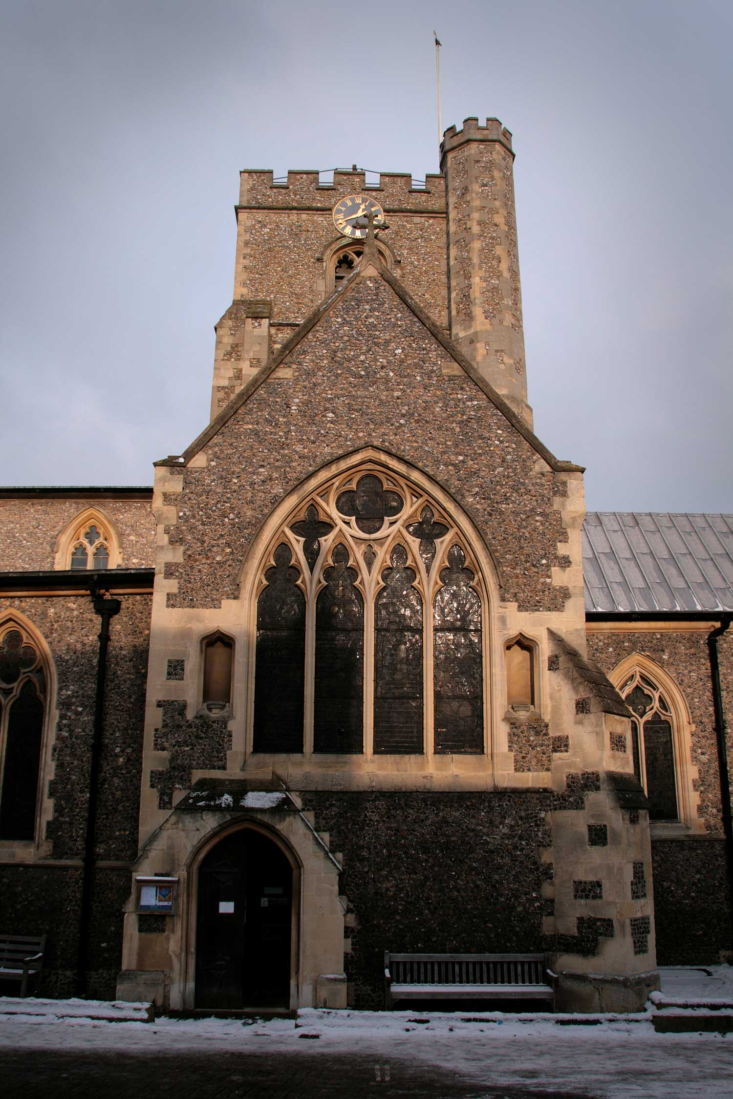 St Peter's parish church, Great Berkhamsted, Hertfordshire, England: south transept. The transept roof was raised to its original pitch in 1871 by William Butterfield.